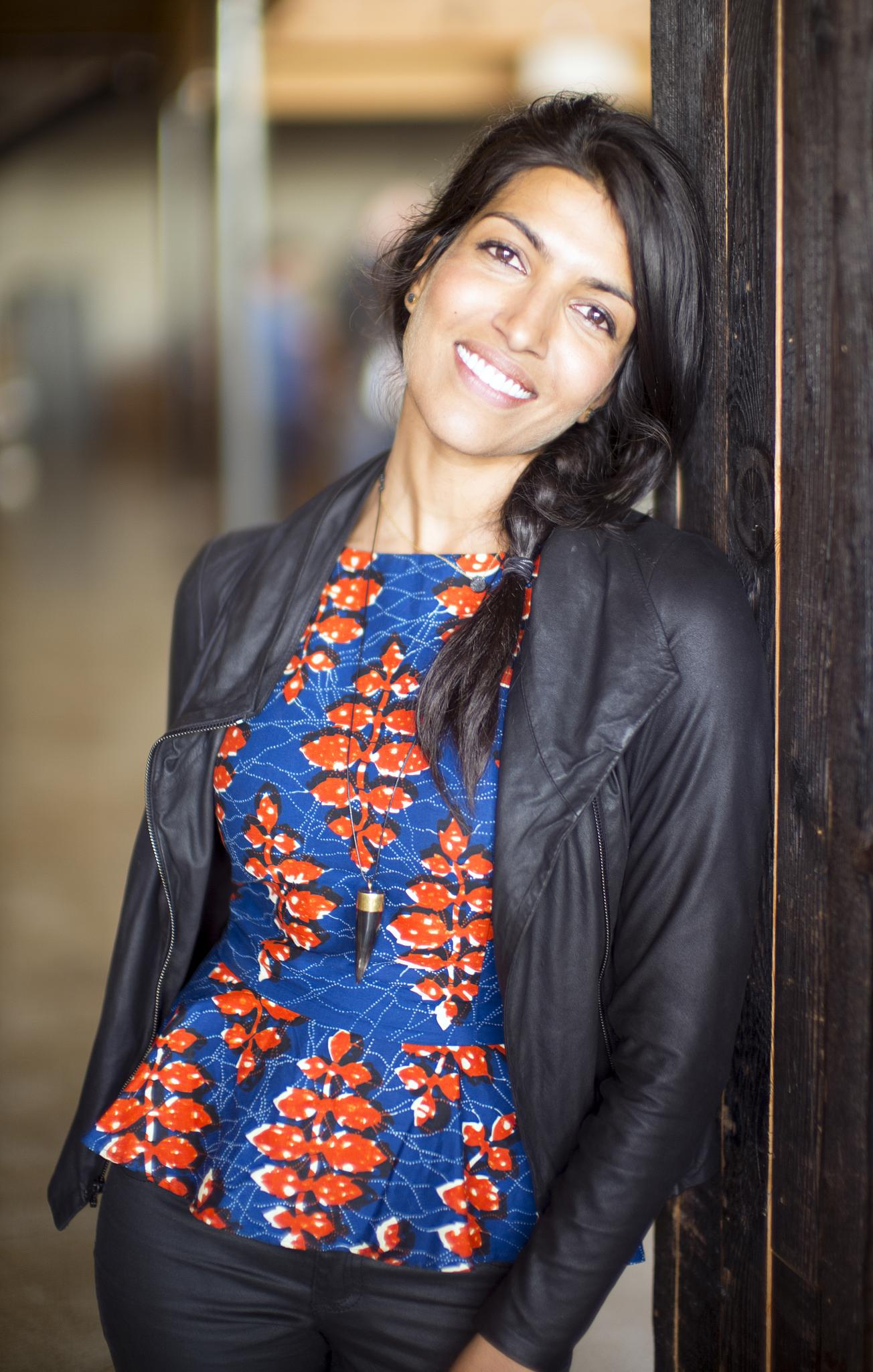 American non-profit entrepreneur Leila Janah, CEO and founder of Samasource social business.